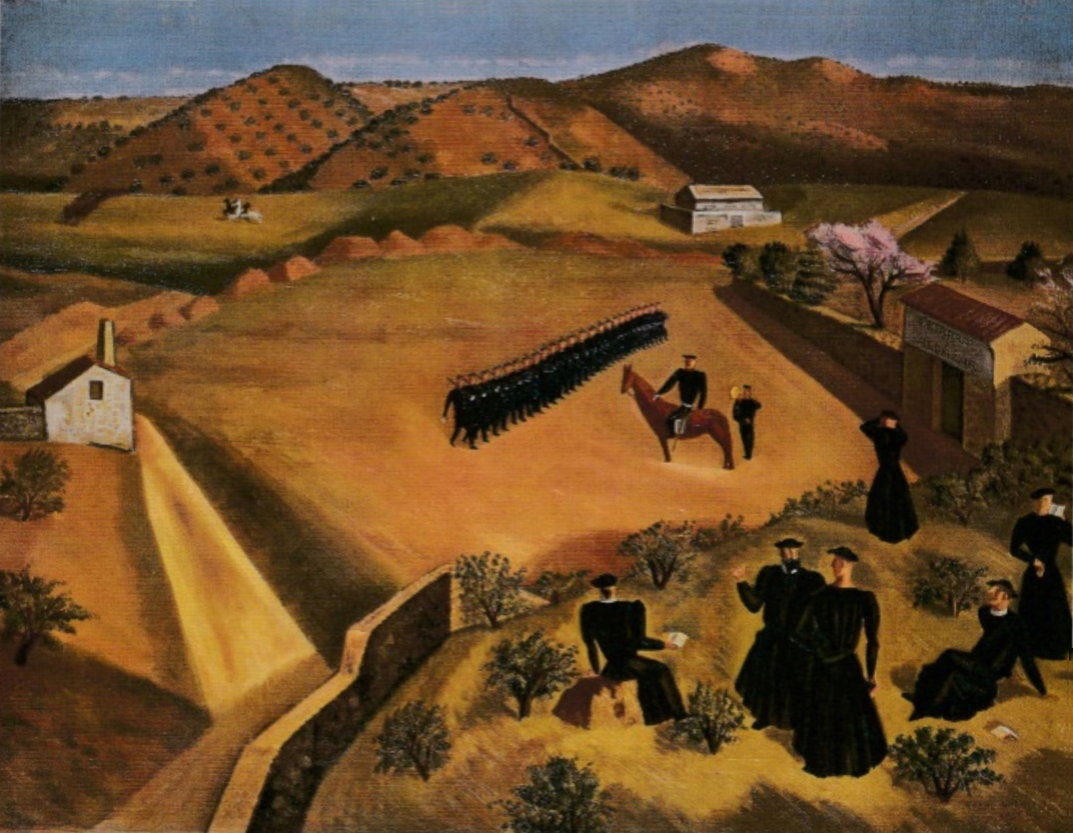 Outskrits of Toledo - sodiers and monchs